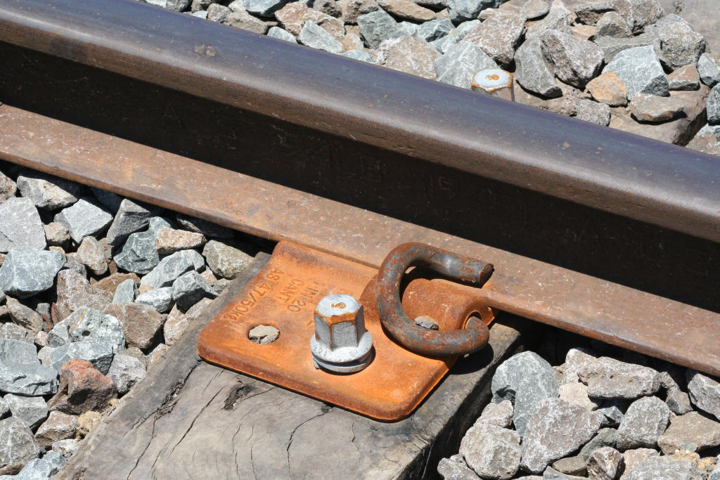 Pandrol clip attached to steel base holding rail, screwed into wooden sleeper